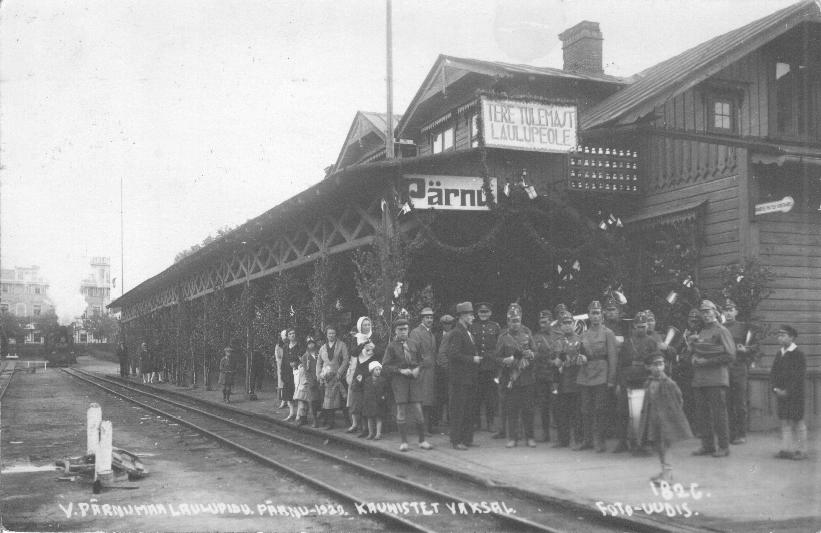 Old Parnu railway station.